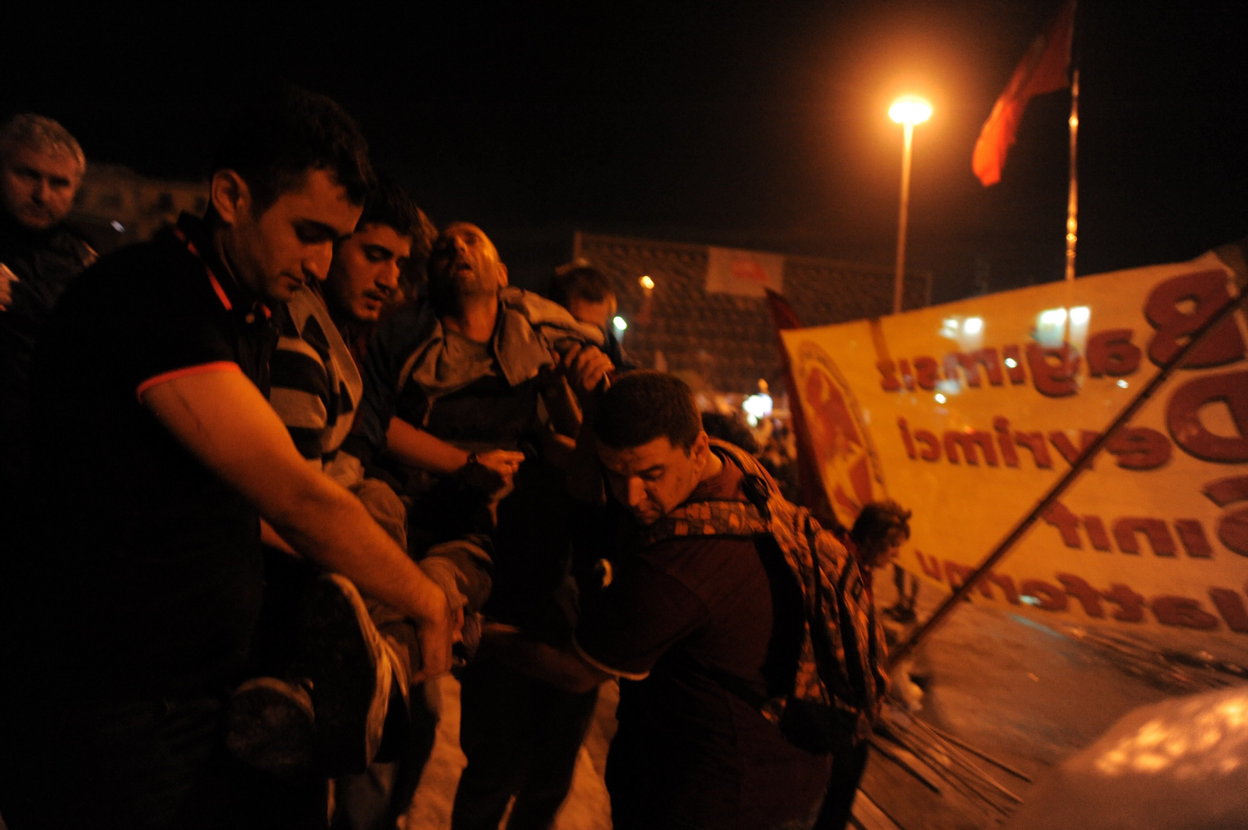 Casualties of Taksim protests. Events of June 3, 2013.